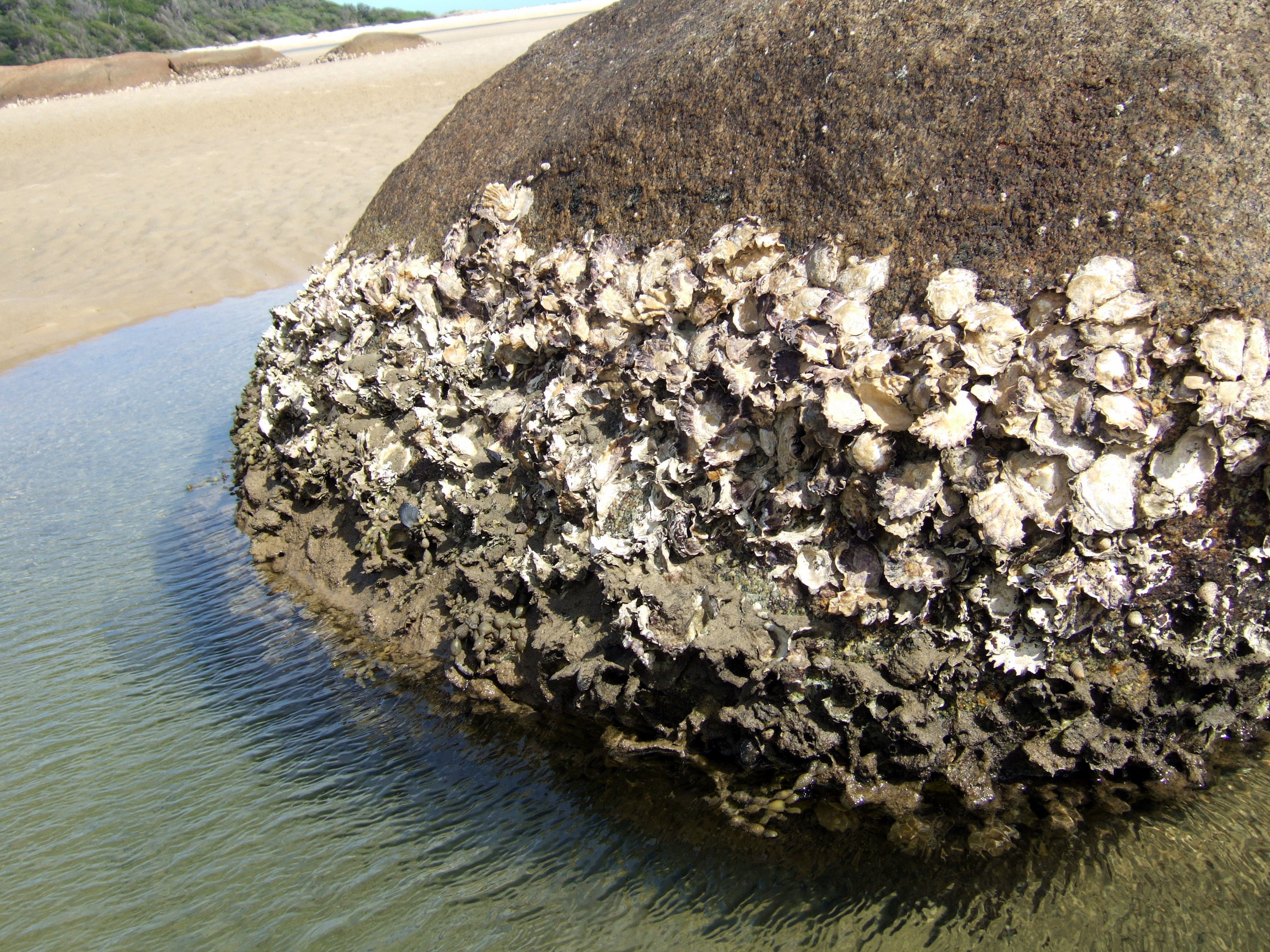 This image is used on p542 of "Aquaculture: Farming Aquatic Animals and Plants" By John S. Lucas, Paul C. Southgate